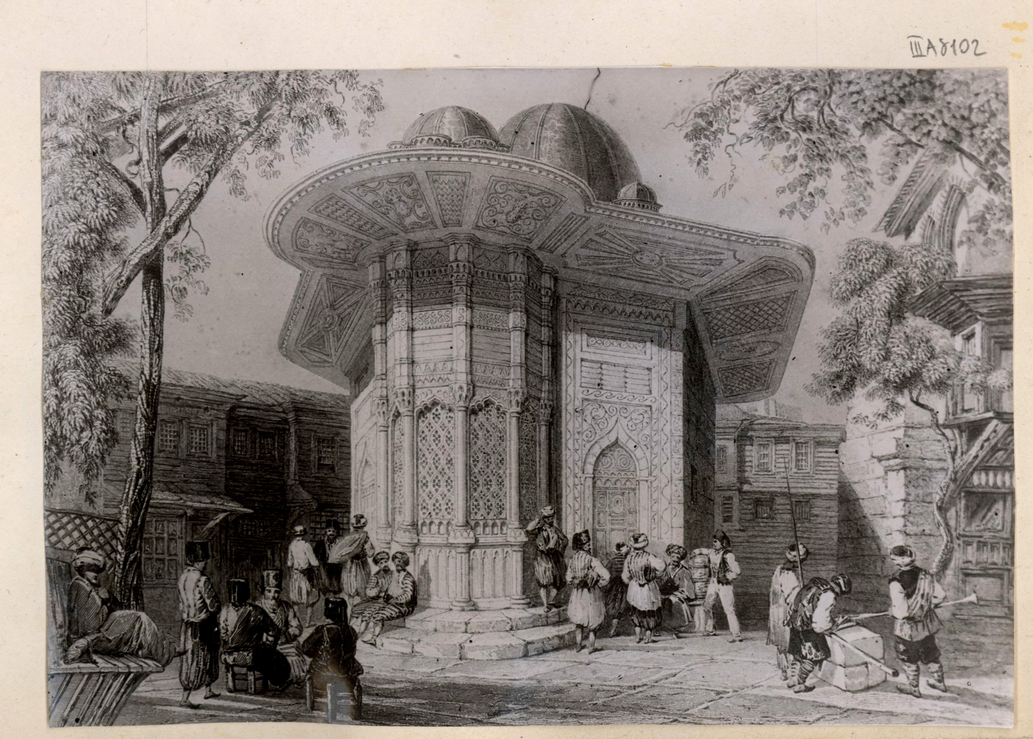 Saliha Sultan Fountain, a typical square fountain of 18th century Ottoman architecture, was built on the order of Valide Saliha Sultan, mother of Sultan Mahmud I, by the architect Mehmet Ağa. In the style of the Tulip Period of architecture, the foundation is adorned with marble floral motifs. This decorative layer was partially demounted in 1910 by Kemal Altan to be renovated, but it couldn’t be replaced for some years because of the First World War. The second restoration was perfomed by Ali Saim Ülgen between 1952 and 1953. With the construction of a new road in front of the fountain, its position within the square was lost. Having not been in use for many years, the fountain was restored in the 1990s by Pious Foundations and is now functioning once again. SALT Research, Ali Saim Ülgen Archive Saliha Sultan Çeşmesi, 18. yüzyılda kamusal mekânı tanımlamak ve zenginleştirmek üzere inşa edilmiş meydan çeşmelerindendir. Tümüyle mermer kaplı olan çeşme, tipik bir Lale Devri yapısı özelliği olan bitki motifleriyle dikkati çeker. 1732-1733’te, I. Mahmud’un annesi Valide Saliha Sultan tarafından, mimarbaşı Kayserili Mehmet Ağa’ya yaptırıldı. 1910’da Kemal Altan tarafından restore edilmek üzere kısmen söküldü ama araya Birinci Dünya Savaşı’nın girmesiyle restorasyon uzunca bir süre tamamlanamadı. İkinci restorasyon çalışması, 1952-1953’te Ali Saim Ülgen tarafından yapıldı. Daha sonra önünden geçirilen yolla meydan çeşmesi olma özelliğini yitirdi. Uzun yıllar atıl vaziyette durduktan sonra, 1990’larda Vakıflar Genel Müdürlüğü tarafından onarılarak yeniden çeşme olarak işlev görmeye başladı. SALT Araştırma, Ali Saim Ülgen Arşivi